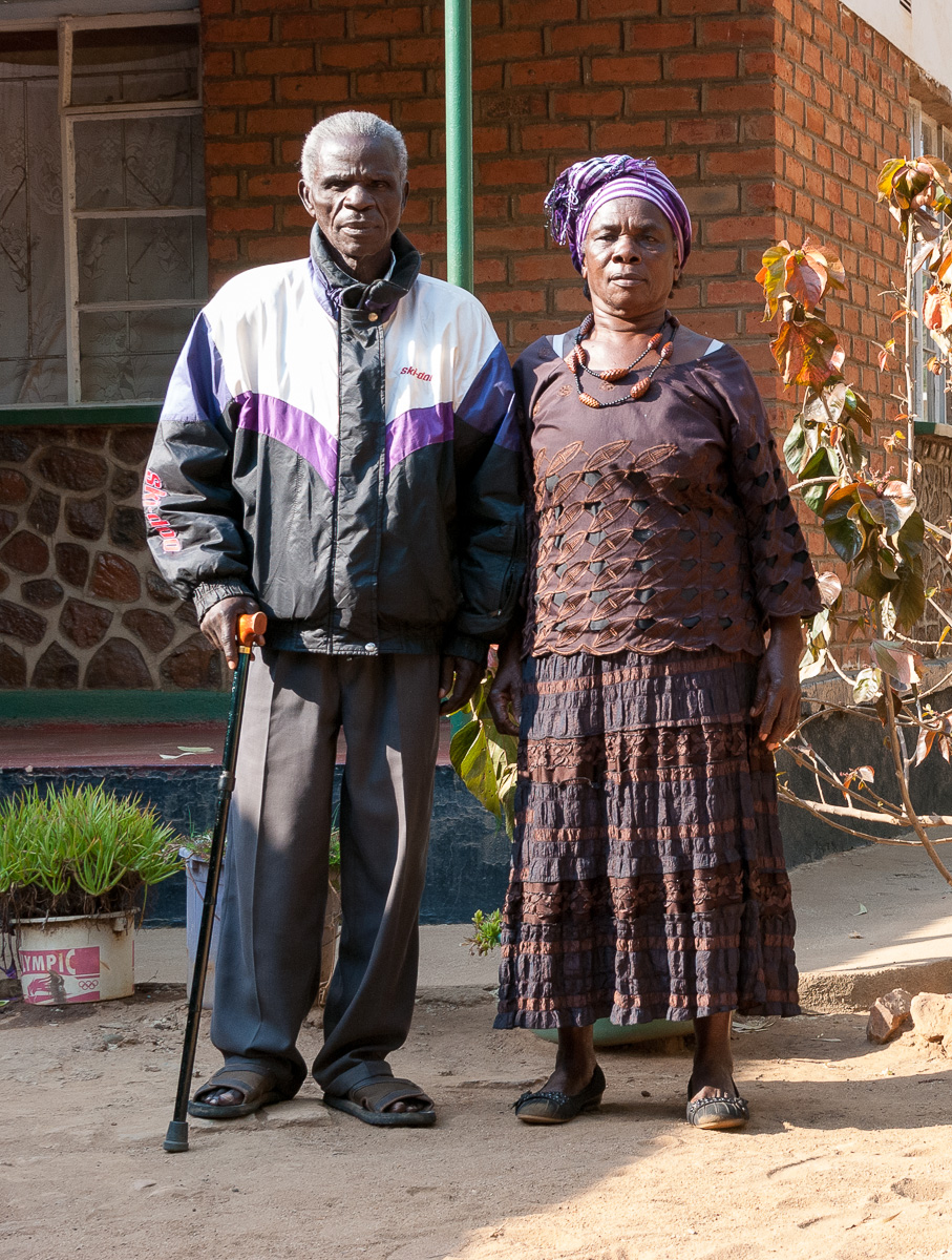 The Paramount Chief of the Tumbuka "Chikulamayembe" (Walter Gondwe) with his wife in Bolero, Rumphi, Malawi.